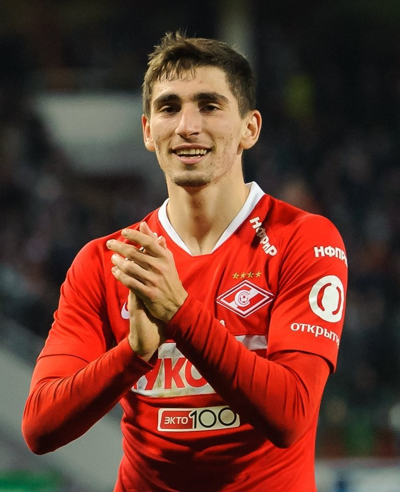 Zelimkhan Bakayev with FC Spartak Moscow in a game against FC Lokomotiv Moscow